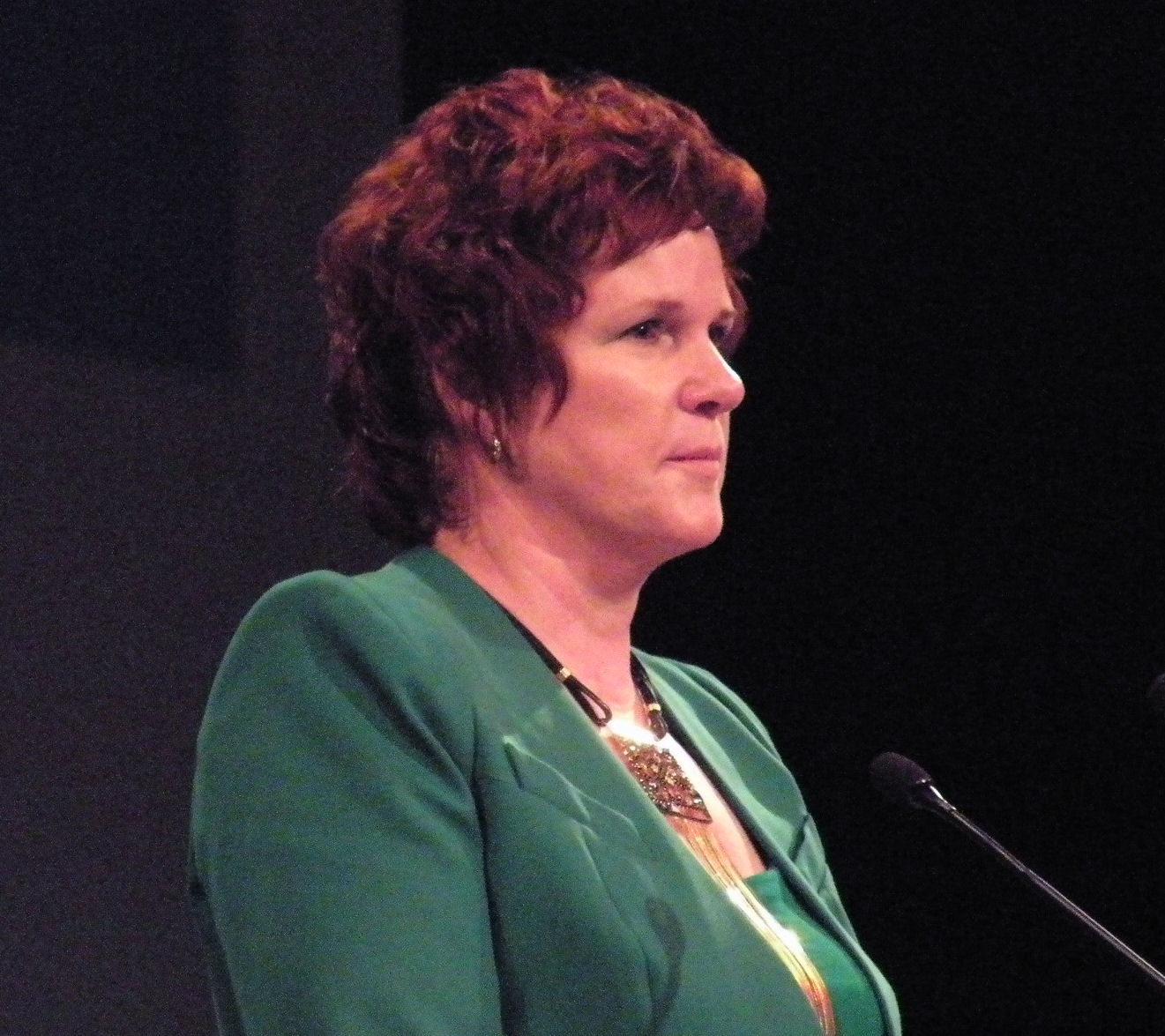 Sharon Bowles MEP addressing a Liberal Democrat conference in the Bournemouth International Centre